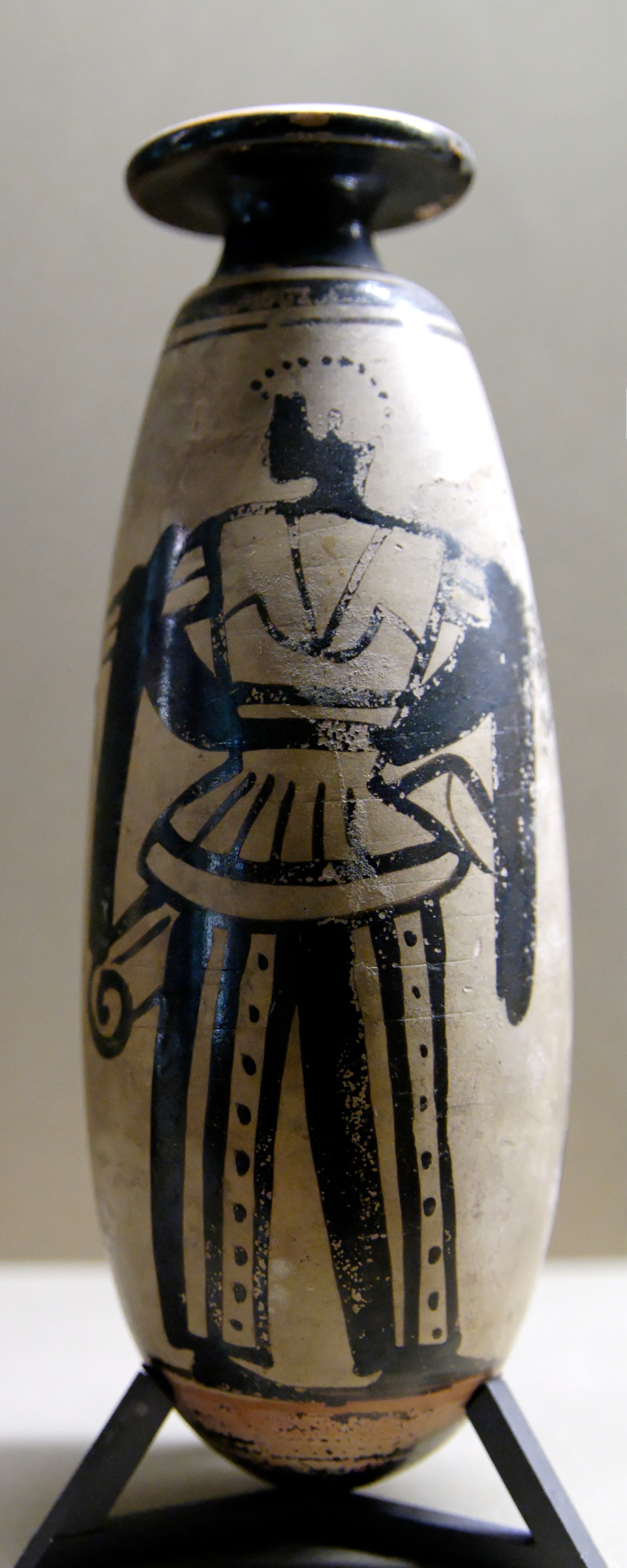 Ethiopian warrior. Attic white-ground alabastron, 480-470 BC. From Athens.